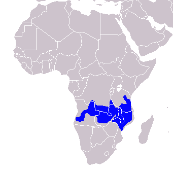 Tockus pallidirostris - Distribution